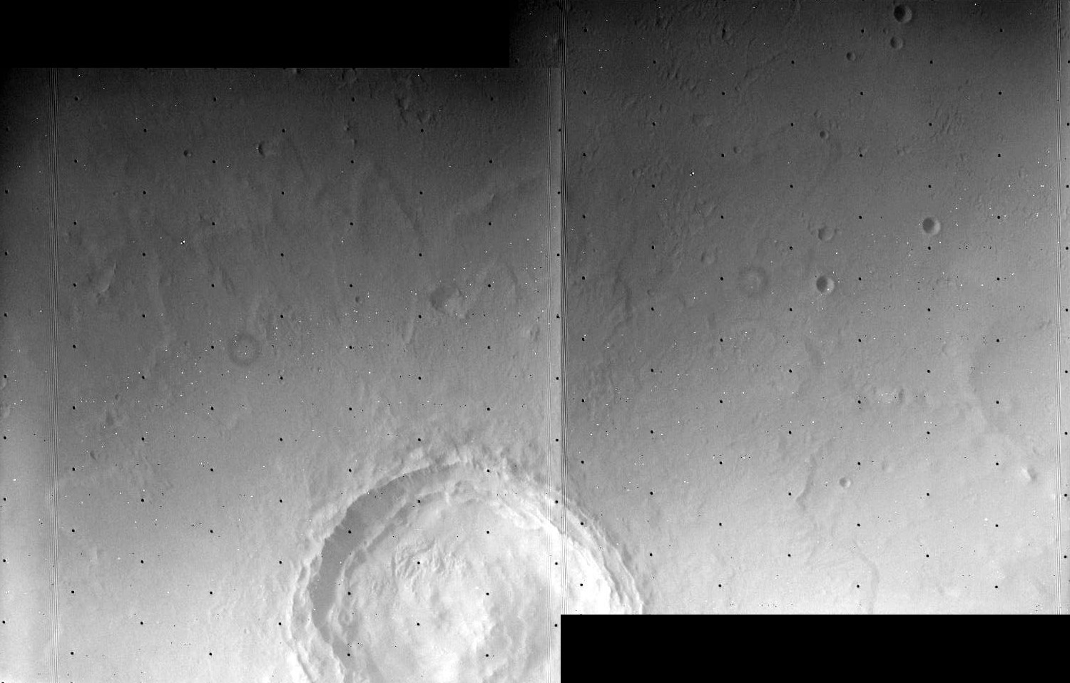 Part of Calahorra crater on Mars. Viking 1 images from camera B (632A02 and 632A04). Clear filter was used for this image. Resolution is about 49 m/pixel. Approximate north is up. Statistics for left image are below: Emission Angle: 26.9 Incidence Angle: 67.7 Latitude: 26.7 Longitude: 321.0 Phase Angle: 84.1